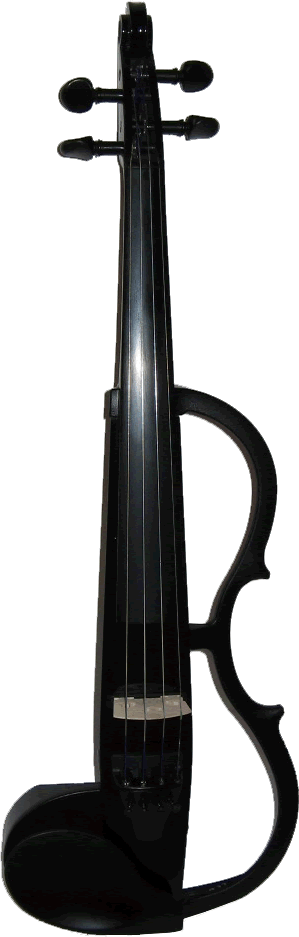 E-Geige. Silent Violin SV-120 (Yamaha). Background removed with CorelPhotoPaint 09